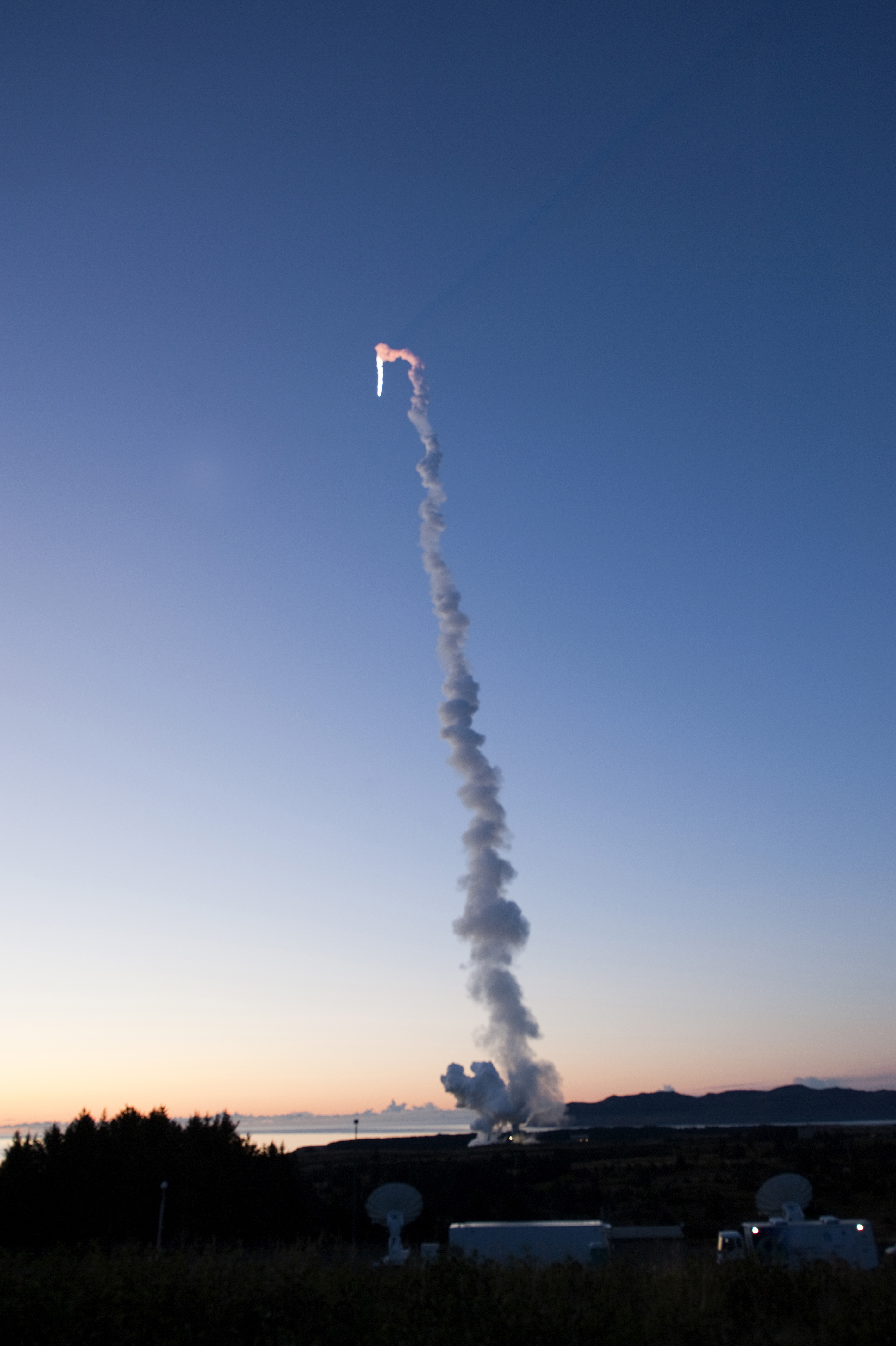 The Office of Naval Research-sponsored tactical satellite IV (TacSat-4) lifts off from the Alaskan Aerospace Corporation's Kodiak Launch Complex aboard a Minotaur IV+ launch vehicle.